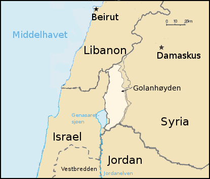 The Golan Heights, map with Norwegian text.